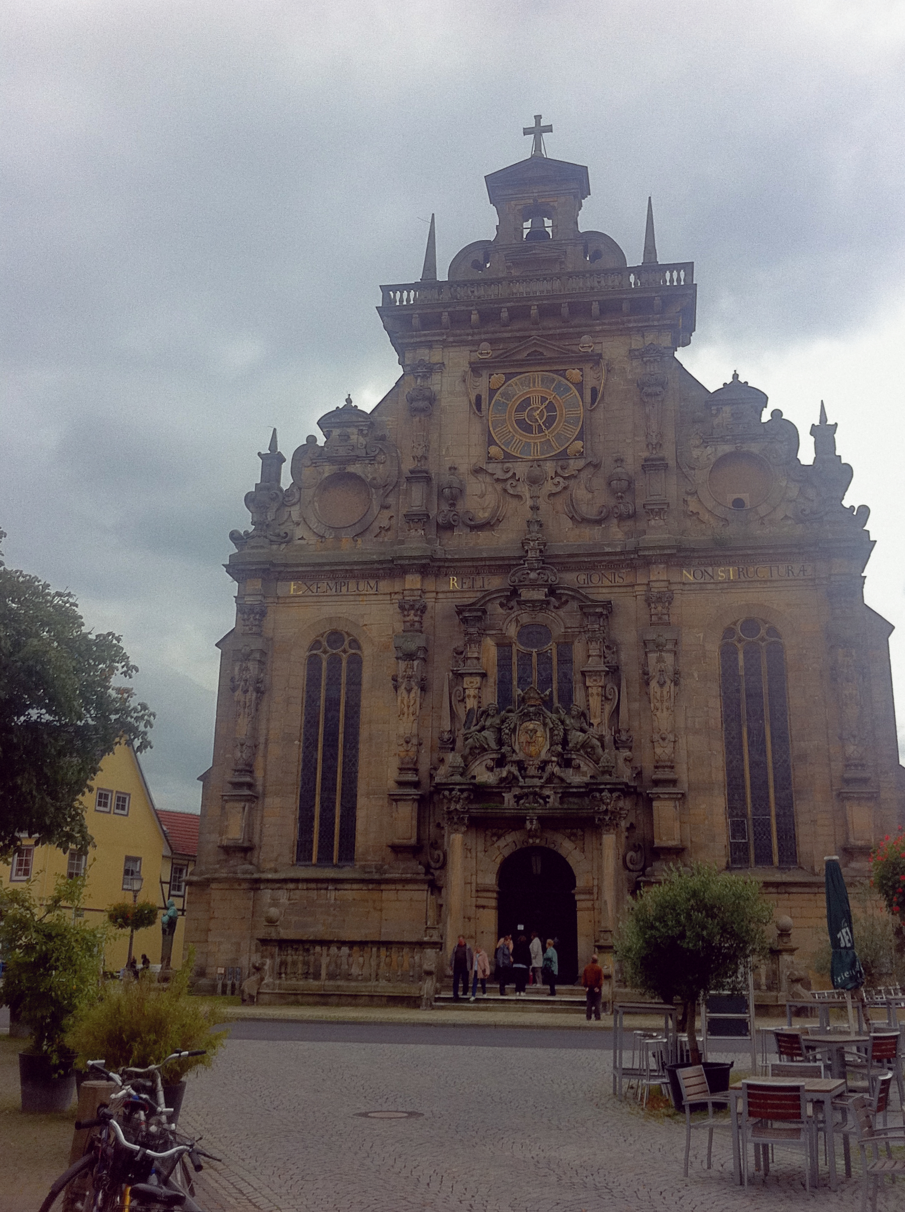 A photograph of Bückeburg town church.